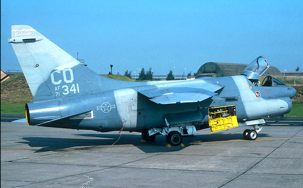 120th Tactical Fighter Squadron A-7D 71-341 1972: Aircraft delivered to 23d Tactical Fighter Wing, England AFB, LA (c/n D-341) Transferred to 120th Tactical Fighter Squadron, CO Air National Guard, 1977 to AMARC as AE0085 Nov 20, 1991 Disposition: October 1997 / To Fritz Enterprises, Taylor, MI. (Actually to HVF West yard, Tucson). Scrapped.